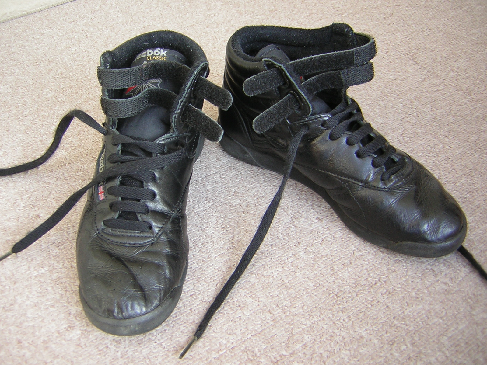 Black Reebok Freestyle High, model "made in Philippines" (supple leather)